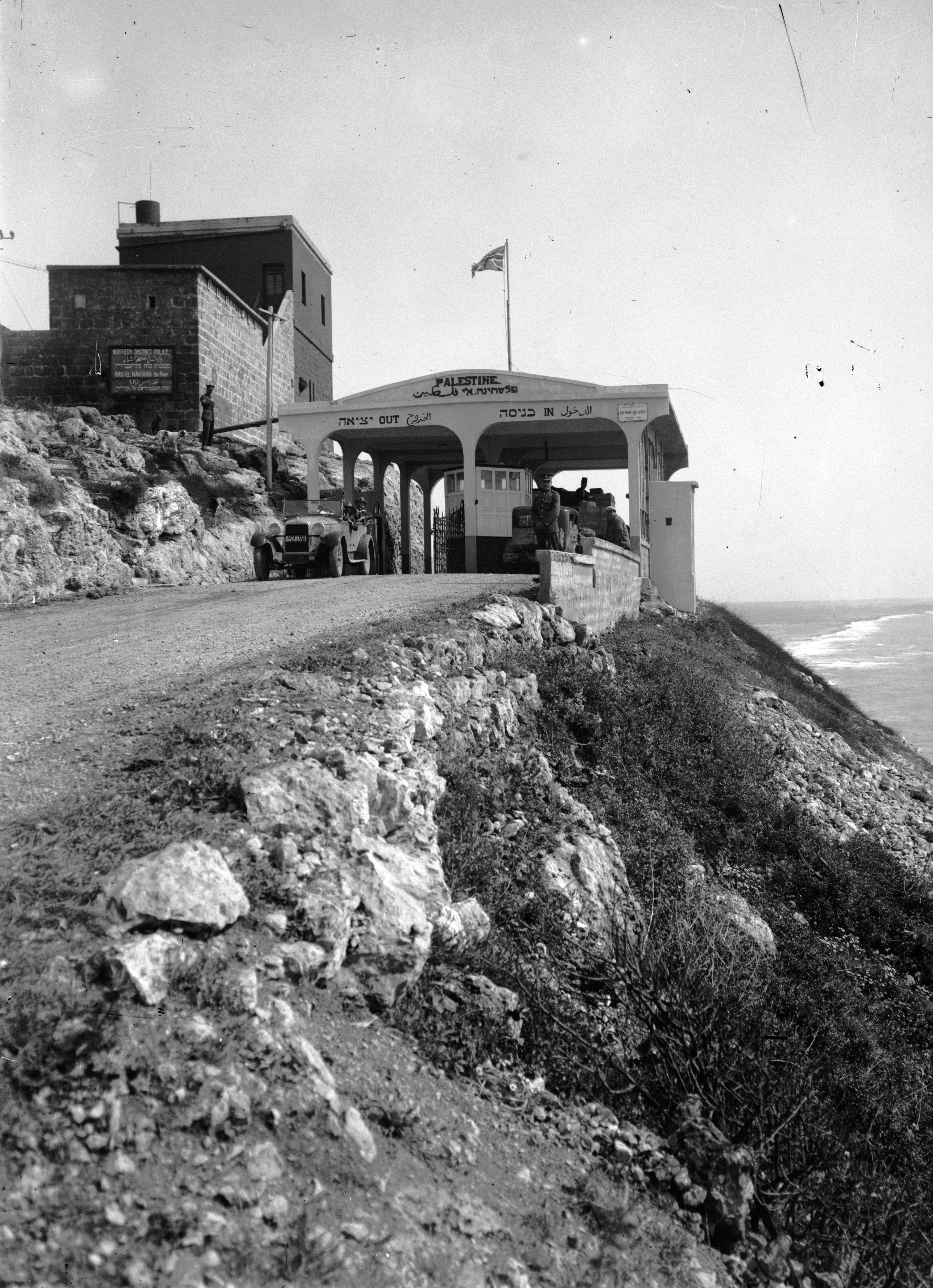 Akka (Acre, Accho). Nakura. The gateway to Palestine. British frontier post on the seacoast